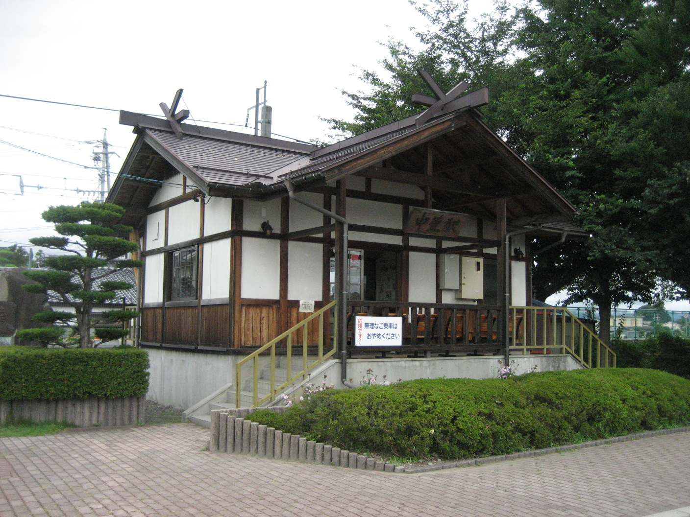 JR East Nakagaya Station